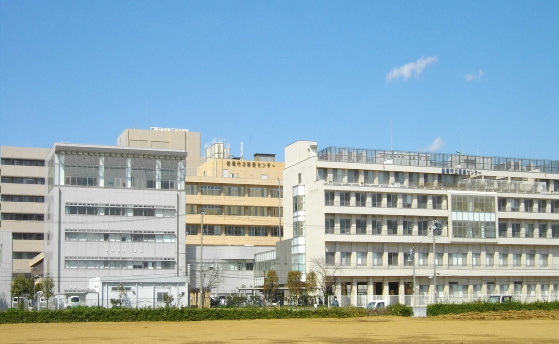 Funabashi Municipal Medical Center